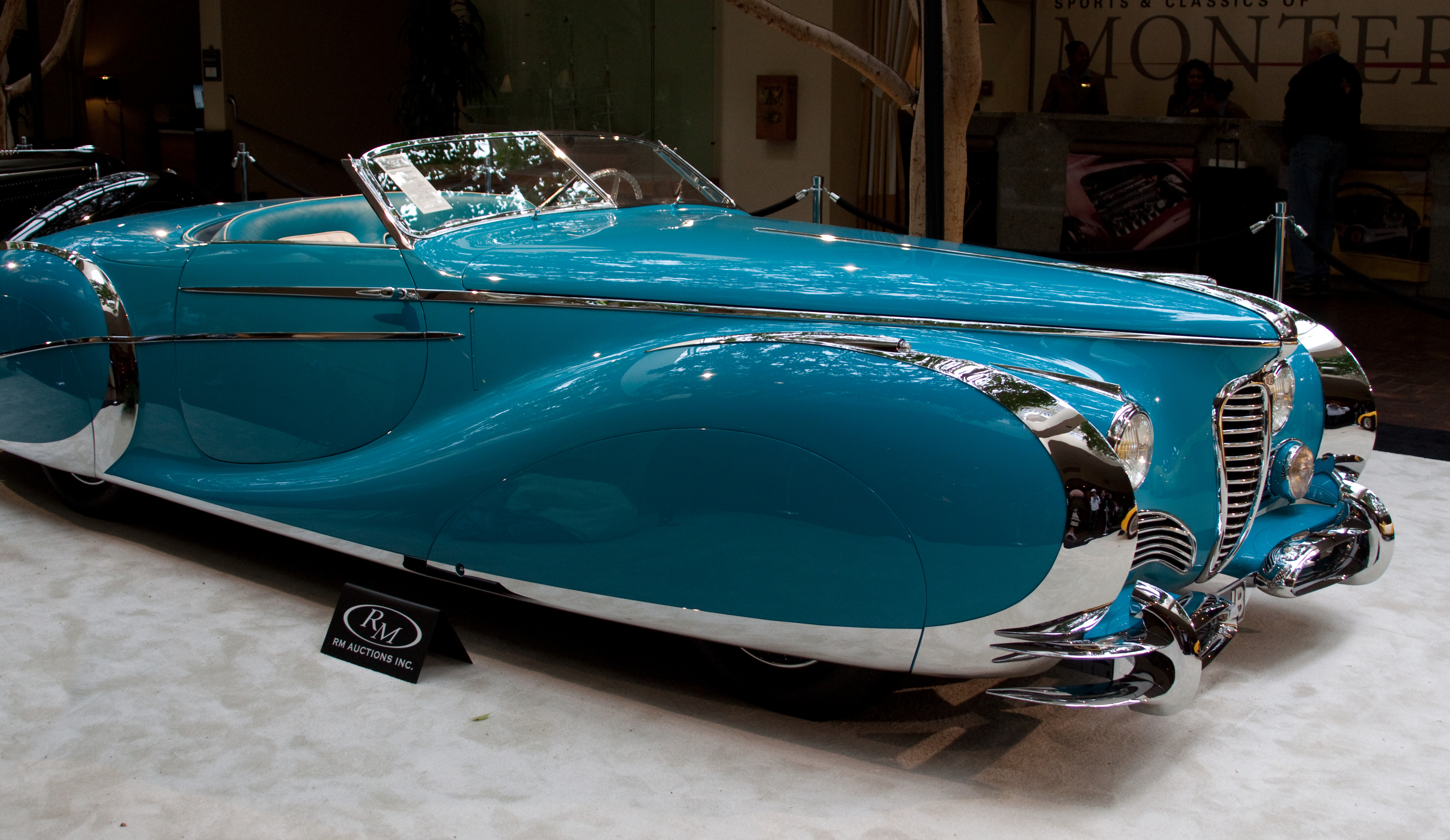 Ex-Diana Dors Delahaye 175S roadster (1949) at 2010 RM Auctions